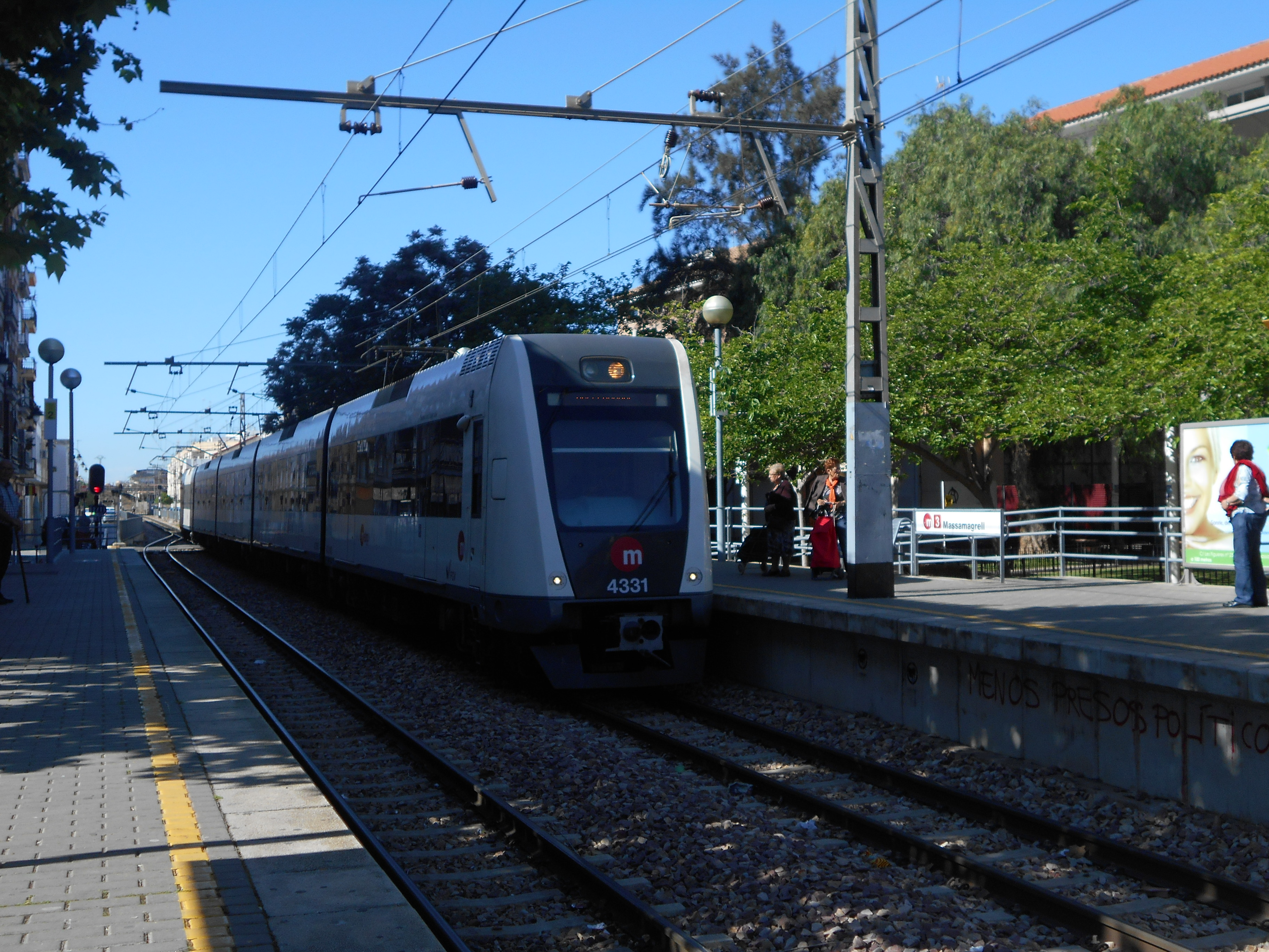 A Metro Valencia train of the 4000 series in the line 3 station Massamagrell